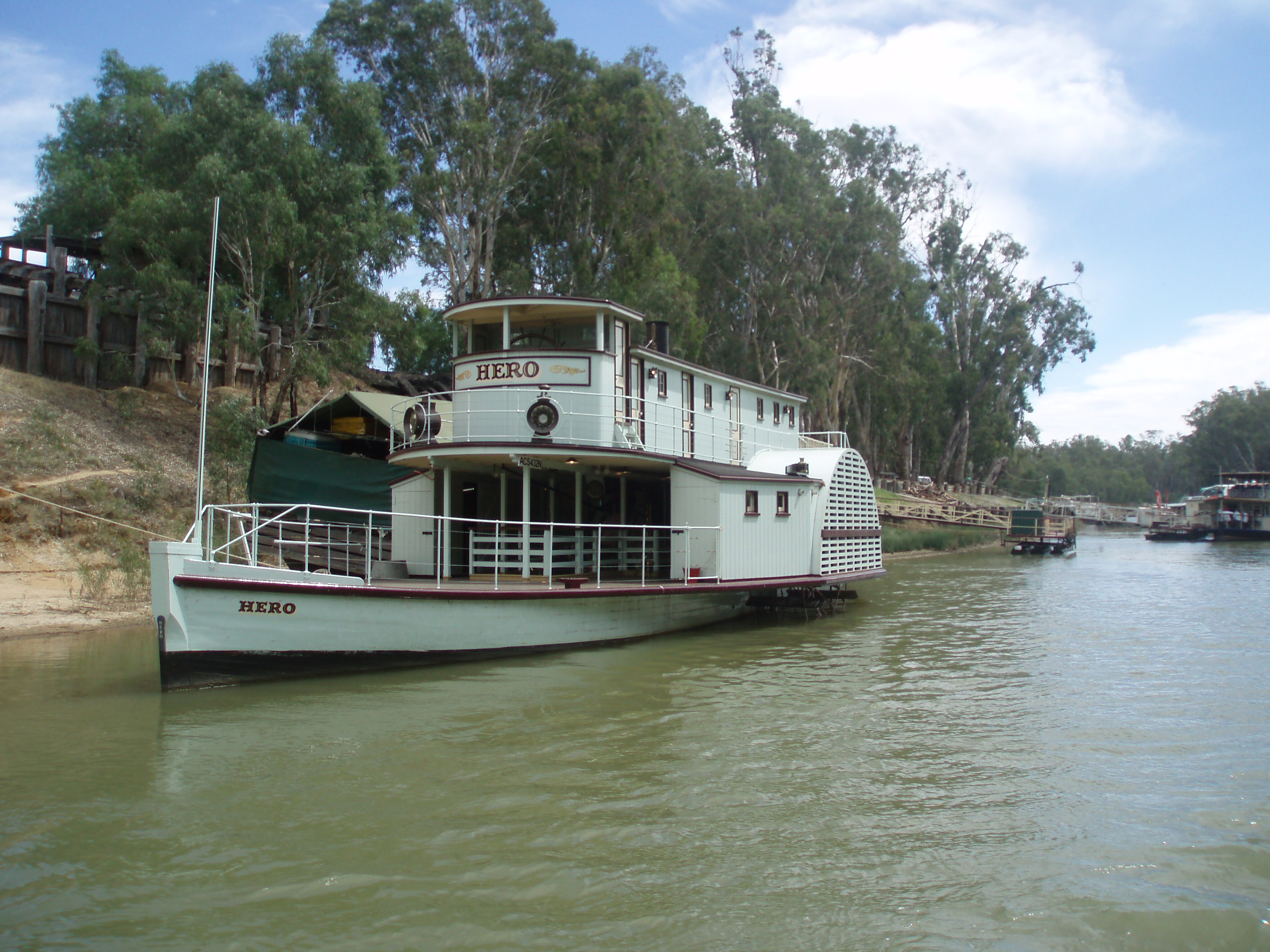 Paddle steamer Hero on the Murray River at Echuca, Victoria. The river forms the border between New South Wales and Victoria. The Port of Echuca was once a busy port.